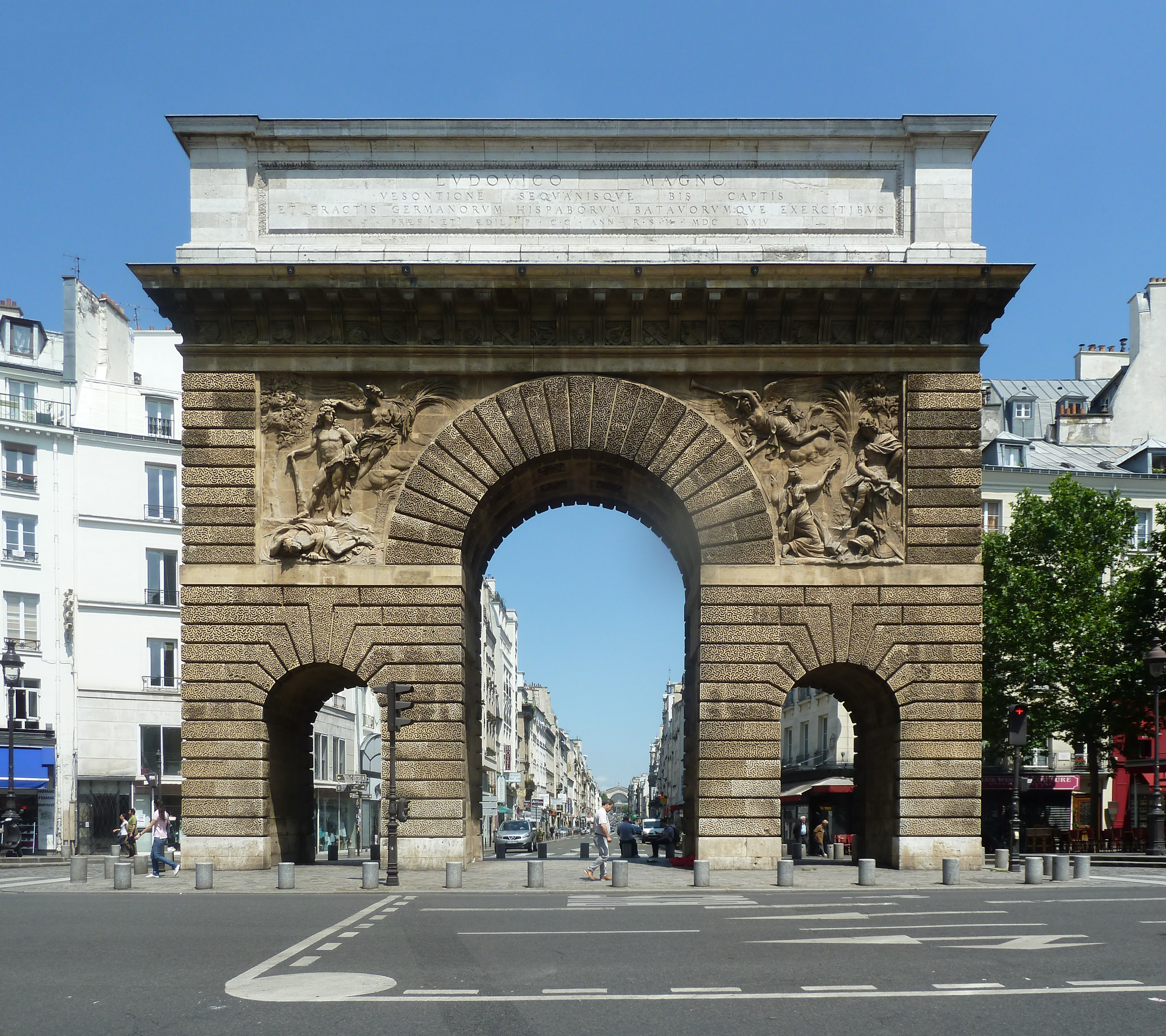 Porte Saint-Martin as seen from the rue Saint-Martin, Paris.